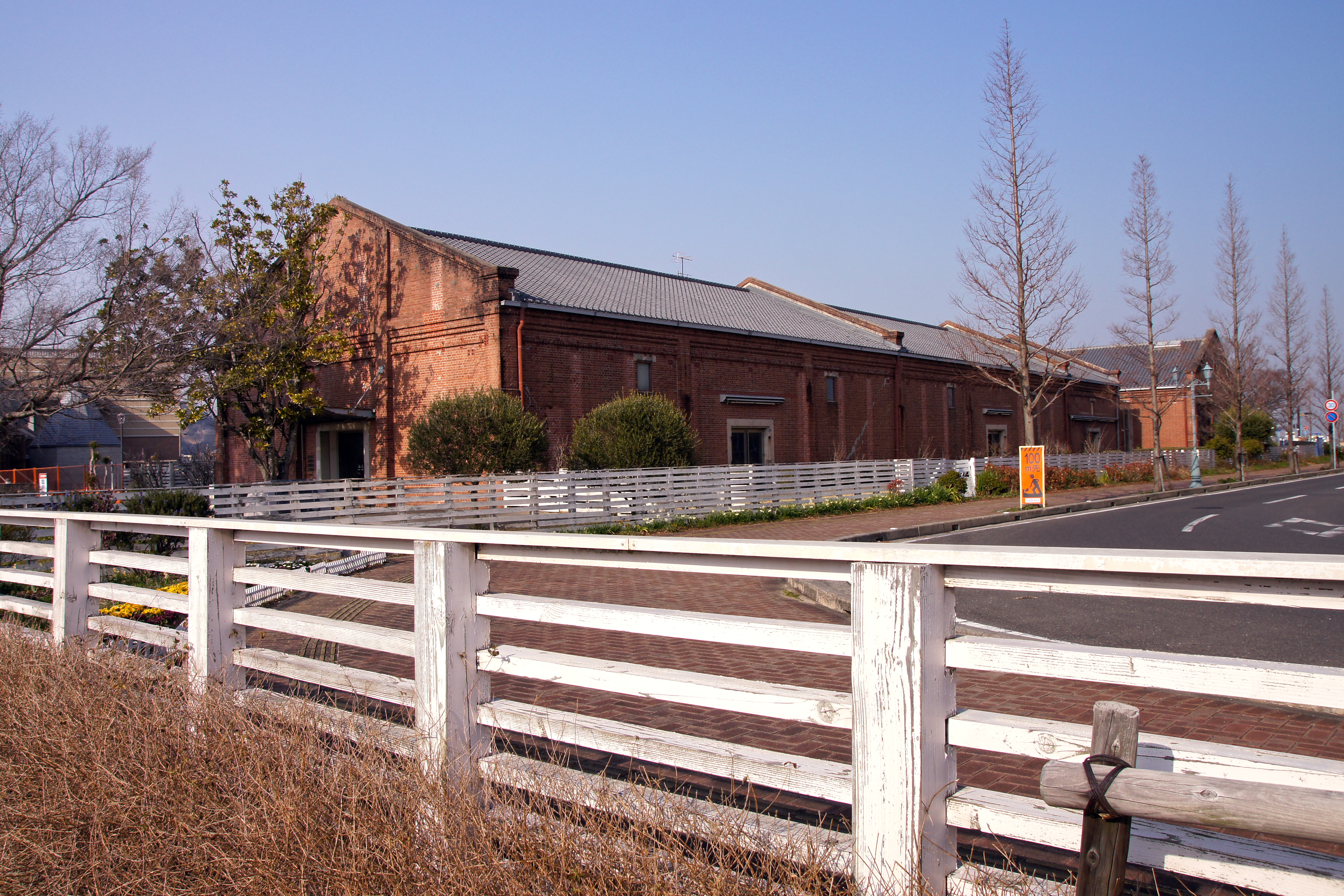 Former raw cotton warehouse of Sumoto factory, Kanebo in Sumoto, Hyogo prefecture, Japan.